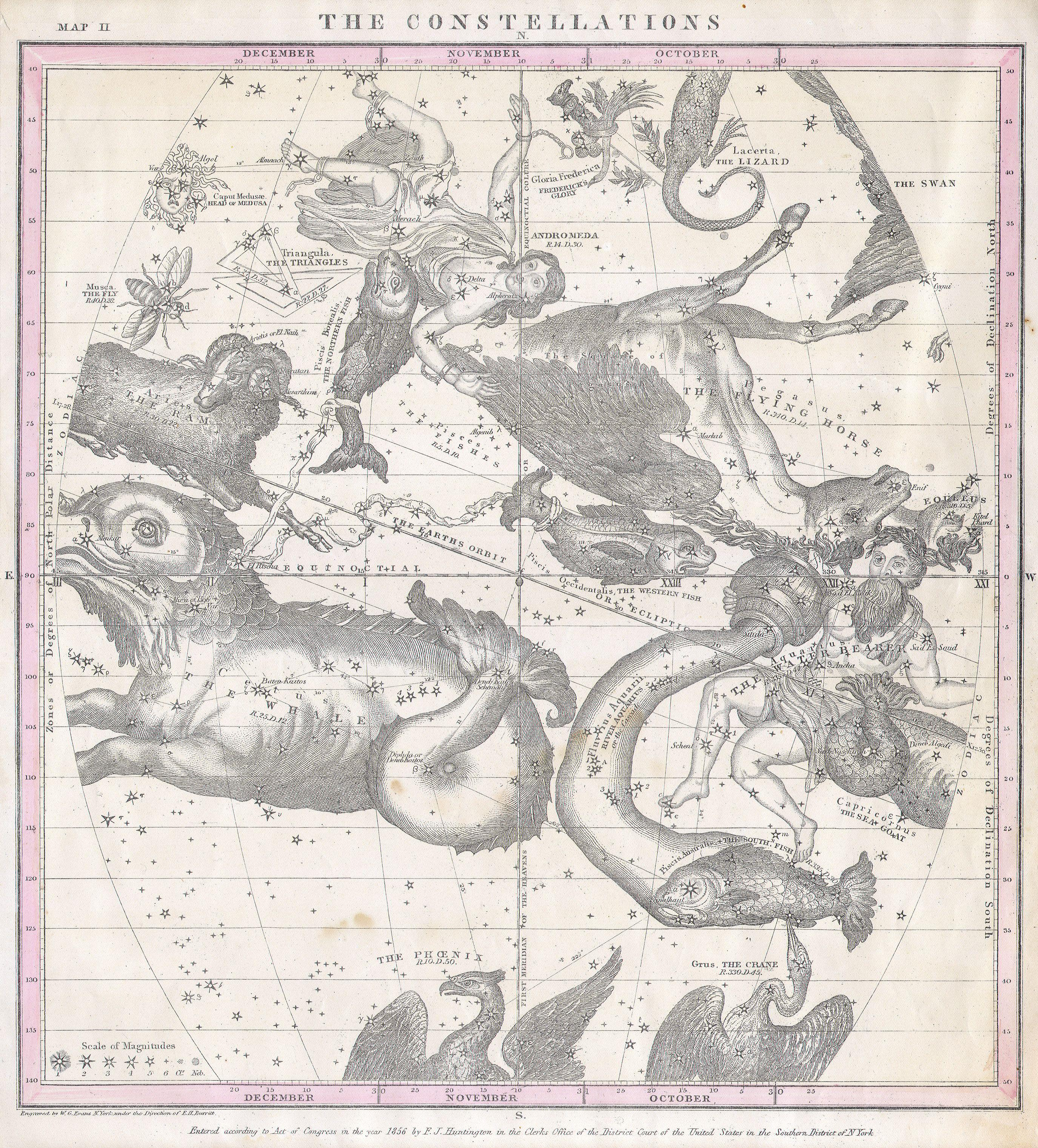 This rare hand colored map of the stars was engraved W. G. Evans of New York for Burritt’s 1856 edition of the Atlas to Illustrate the Geography of the Heavens. It represents the Northern night sky in the months of October, November and December. Constellations are drawn in detail and include depictions of the Zodiacal figures the stars are said to represent. Included on this chart are Aquarius (the Water Bearer), Aries (the Ram), Pisces (the Fish), Capricorn (the Sea Goat) and Cetus (the Whale). Chart is quartered by lines indicating the Solstitial and Equinoctial Colures. This map, like all of Burritt’s charts, is based on the celestial cartographic work of Pardies and Doppelmayr. D\\ated and copyrighted: “Entered according to Act of Congress in the year 1856 by F. J. Huntington in the Clerks Office of the District Court of the United States in the Southern District of N. York.